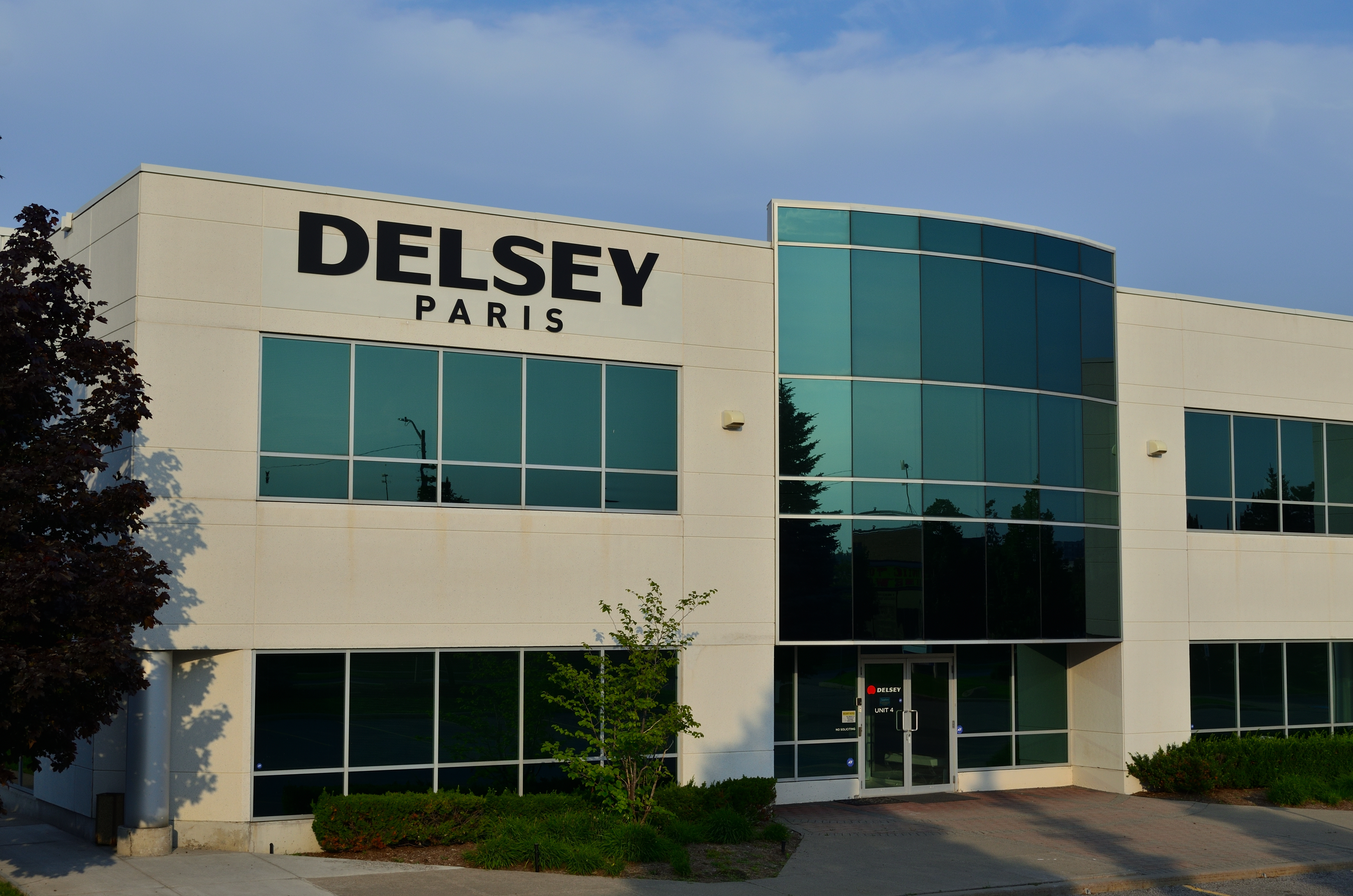 Delsey Paris office in Richmond Hill